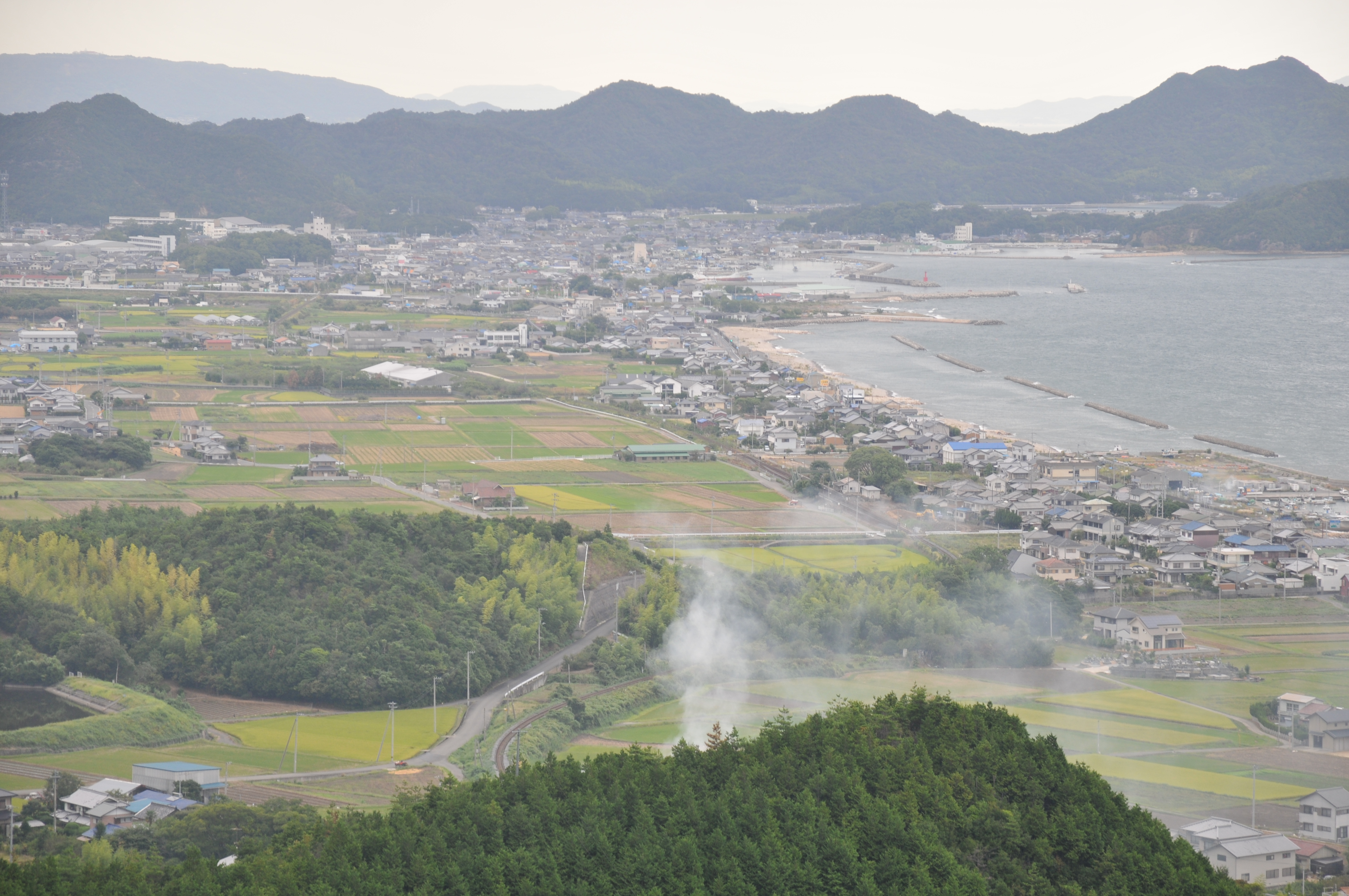 Hiketa town view from Osaka pass